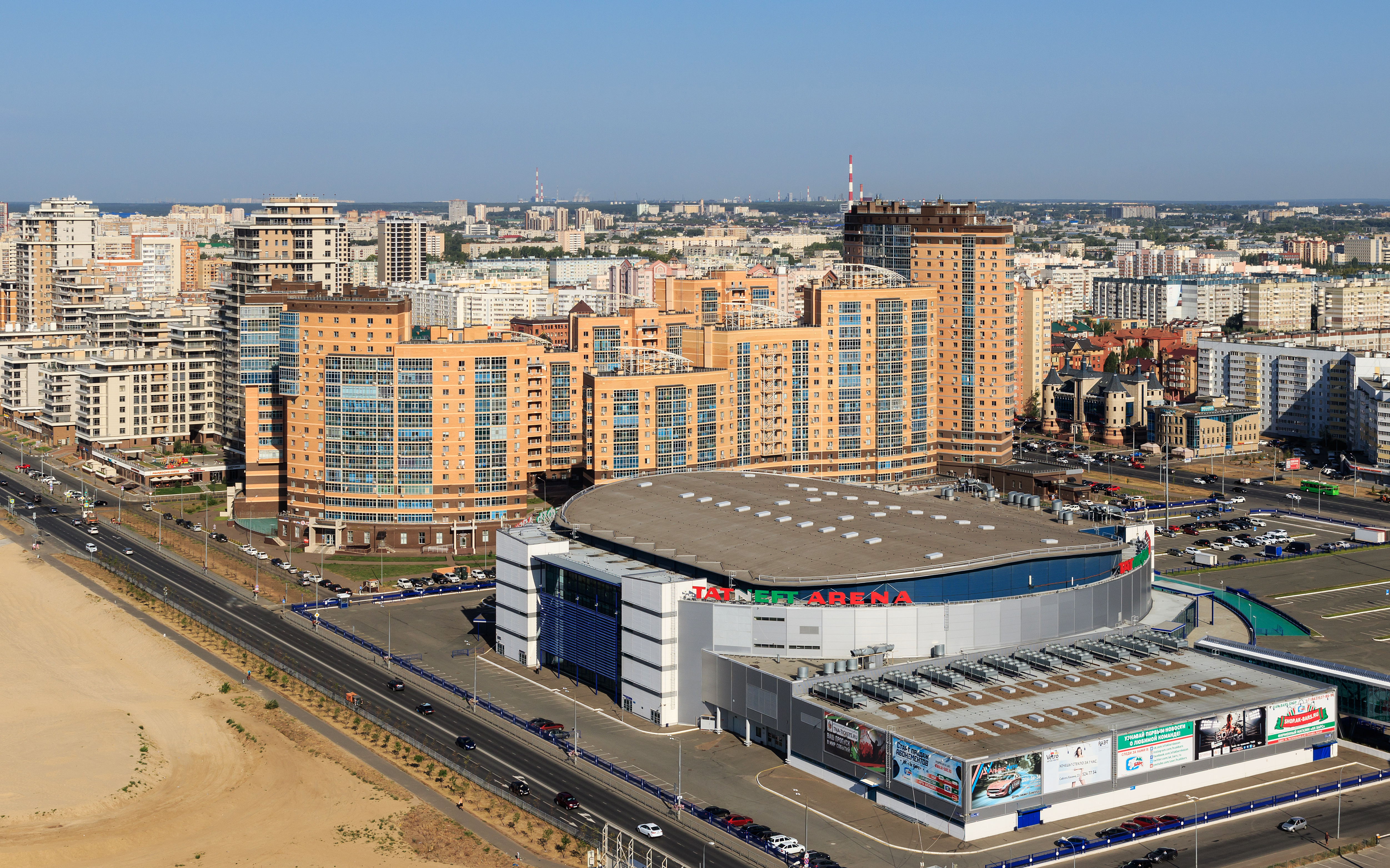 View of TatNeft Arena from the viewpoint of Riviera Hotel in Kazan, Russia